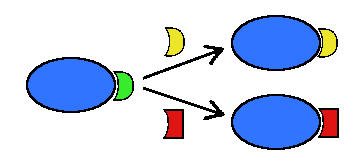 scheme of a basic substitution reaction